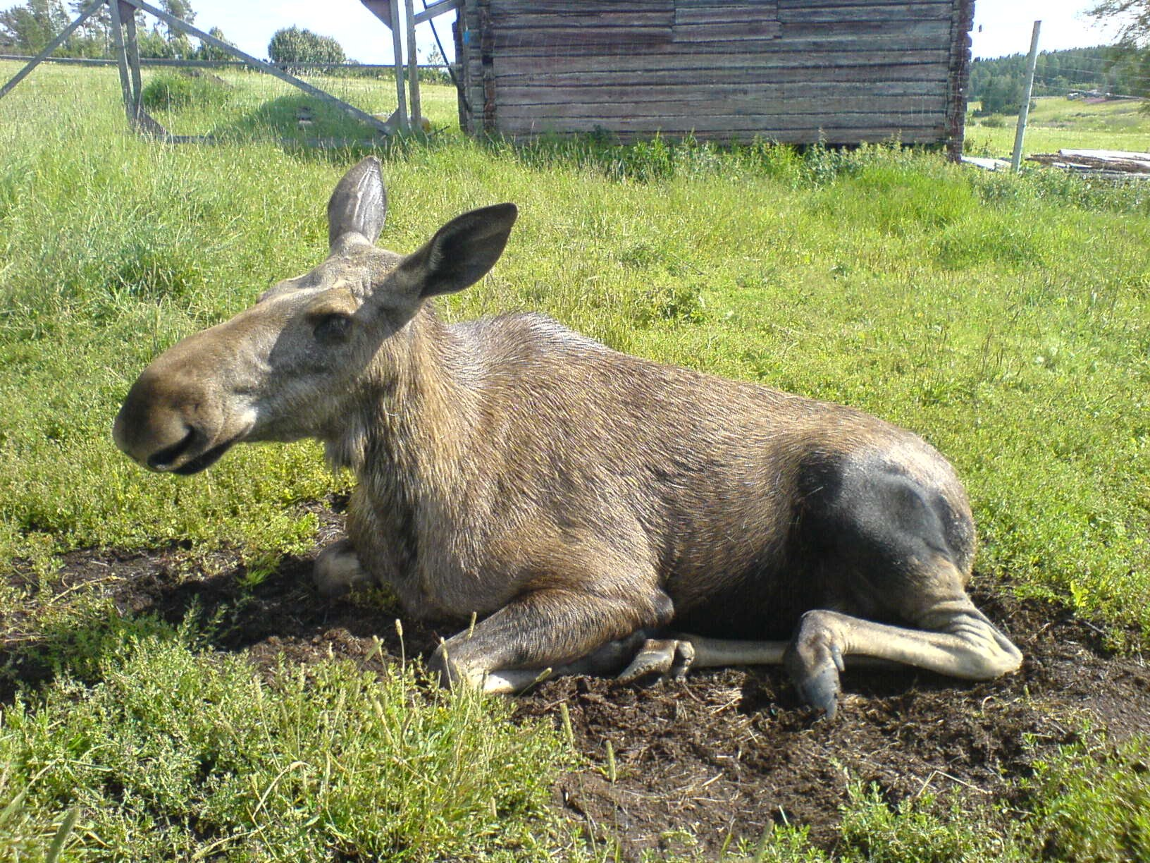 Moose Garden in Orrviken (Östersund Municipality), Elk Cow